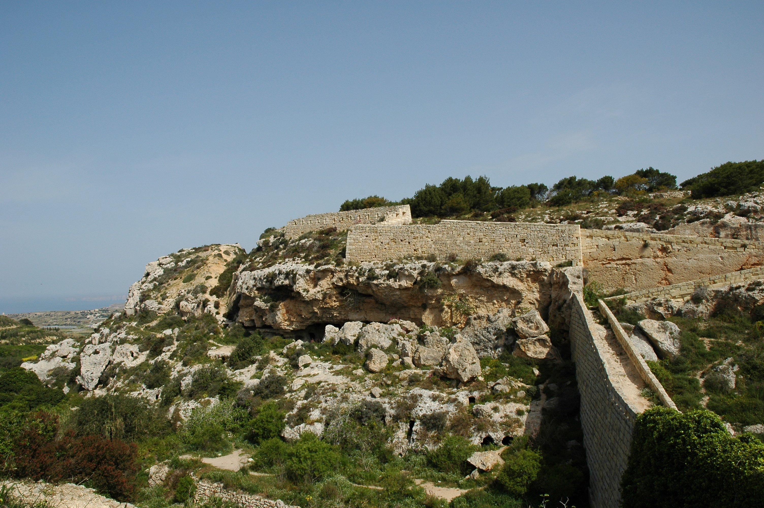 Victoria Lines right on the boundry between Mġarr (lh) and Rabat (rh), Malta